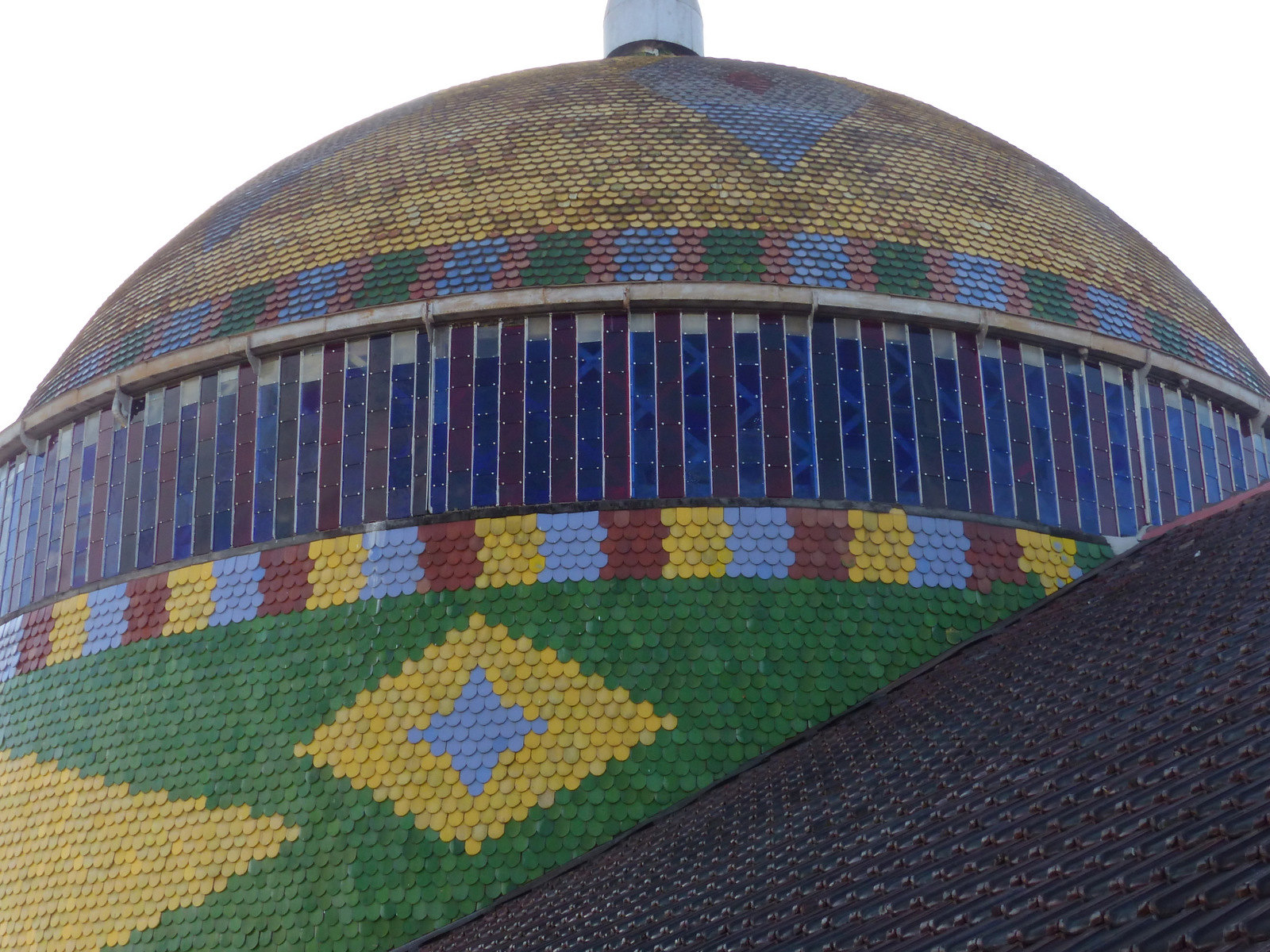 Amazonas Theater dome in the Brazilian city of Manaus, Amazonas.